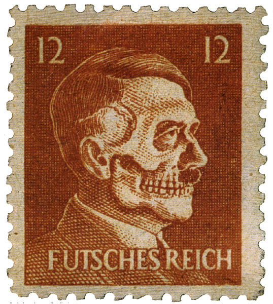 United States made propaganda forgery of Nazi German stamp. Portrait of Hitler made into skull; instead of "German Reich" the stamp reads "Lost Reich". Produced by Operation Cornflakes, U.S. Office of Strategic Services.